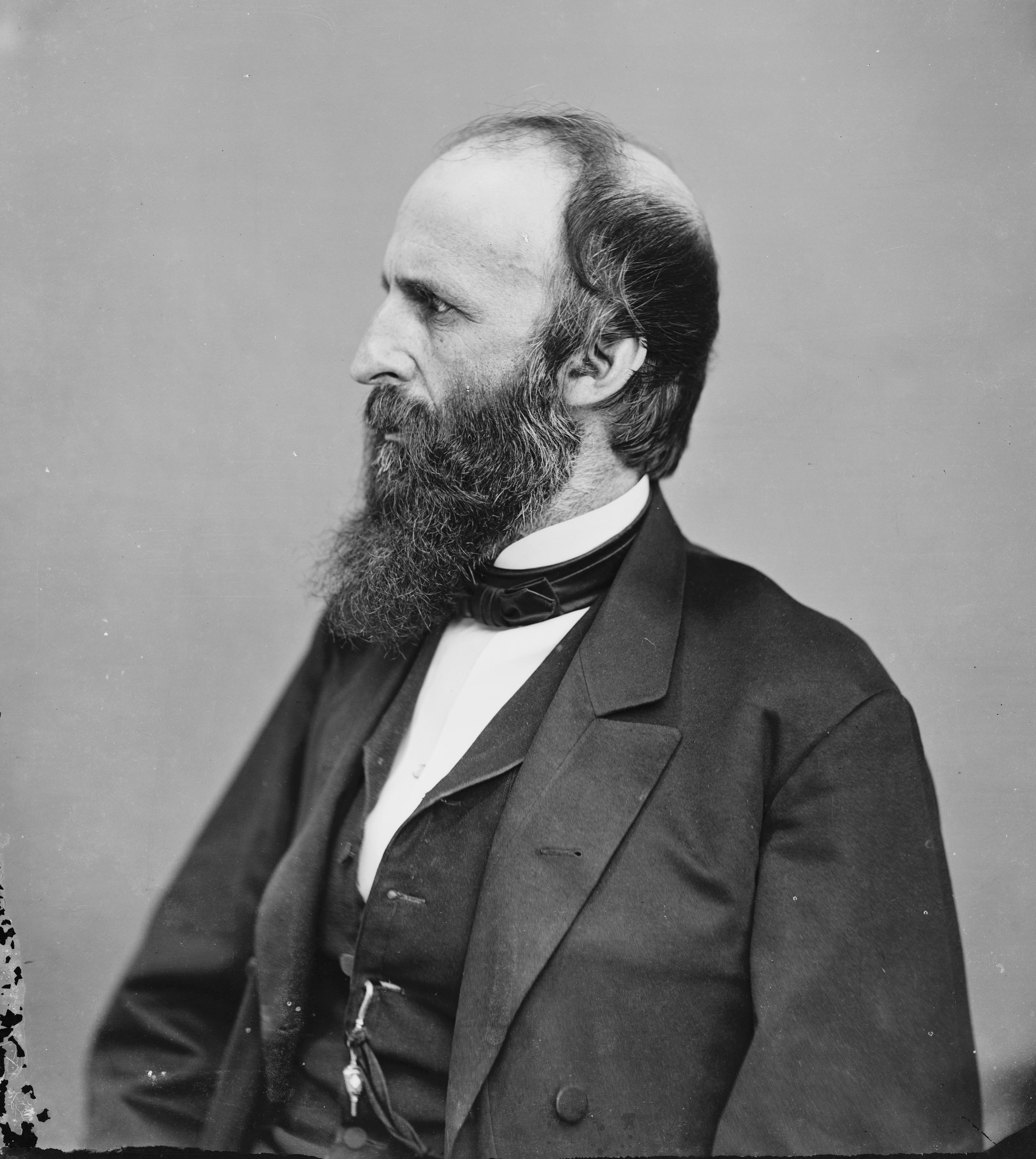 Edward H. Rollins. Library of Congress description: "Rollins, Hon. Edward Henry, Sen. Of N.H. Chairman of N.H. delegation in the Republican National Convention at Chicago in 1860".